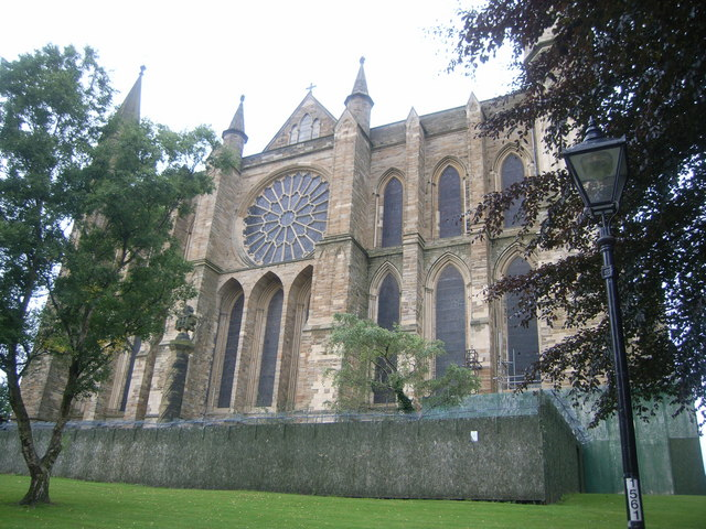 Durham cathedral view